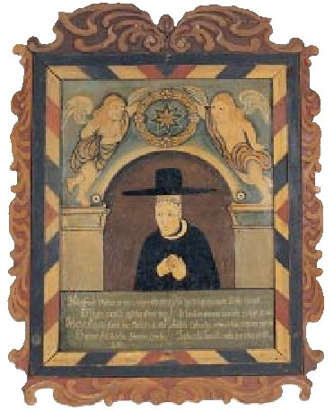 Painting of Hólmfríður Sigurðardóttir (90 x 70 cm) in the national Museum of Iceland. Þjms. 402. Painted by Jón Guðmundsson priest at Felli í Sléttuhlíð approximately 1690-92.